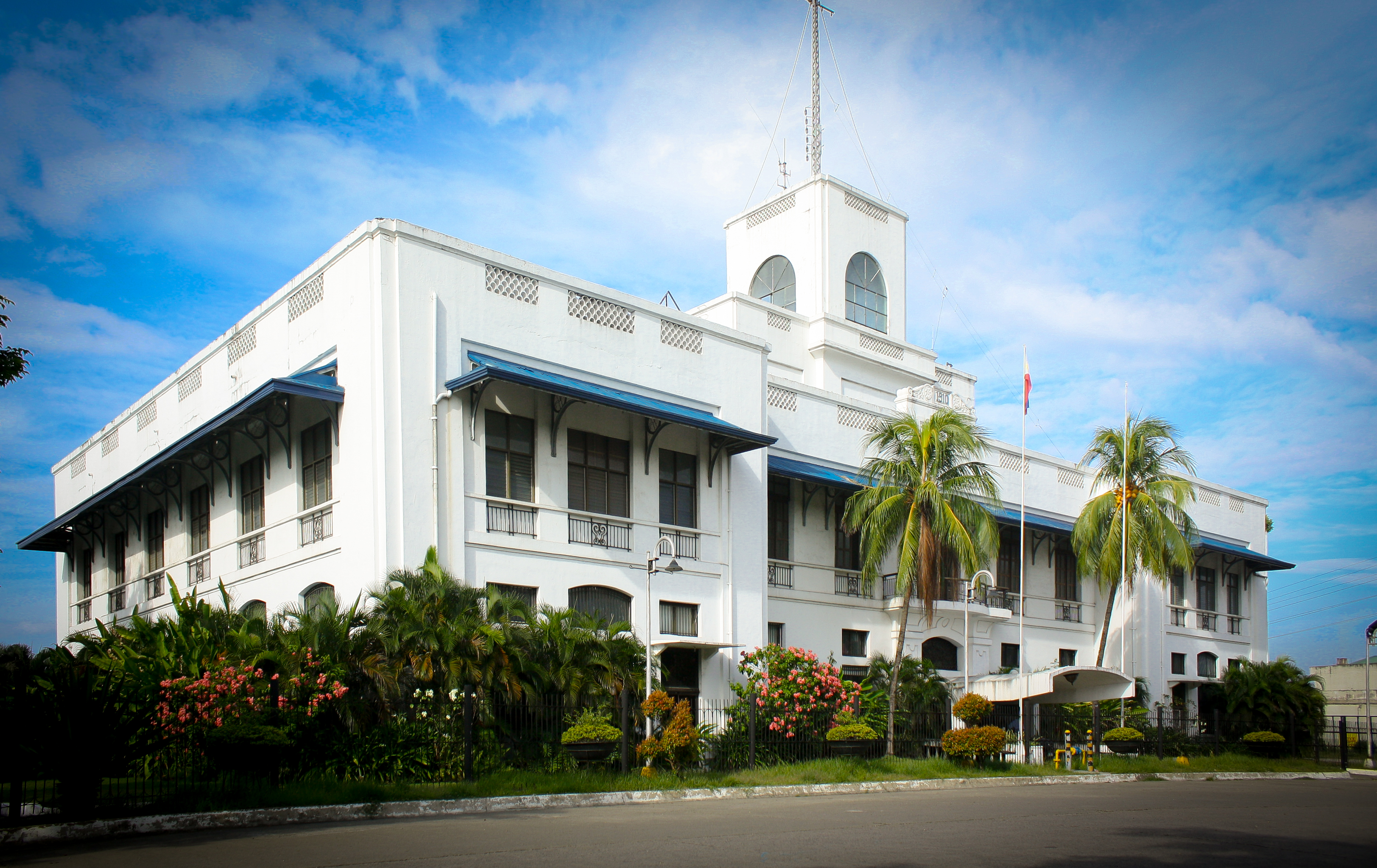 A view of the old Aduana or Customs building in Cebu City, Philippines which was converted as the official residence of the president of the Philippines in the Visayas region. (Photo by Arnold Carl F. Sancover)